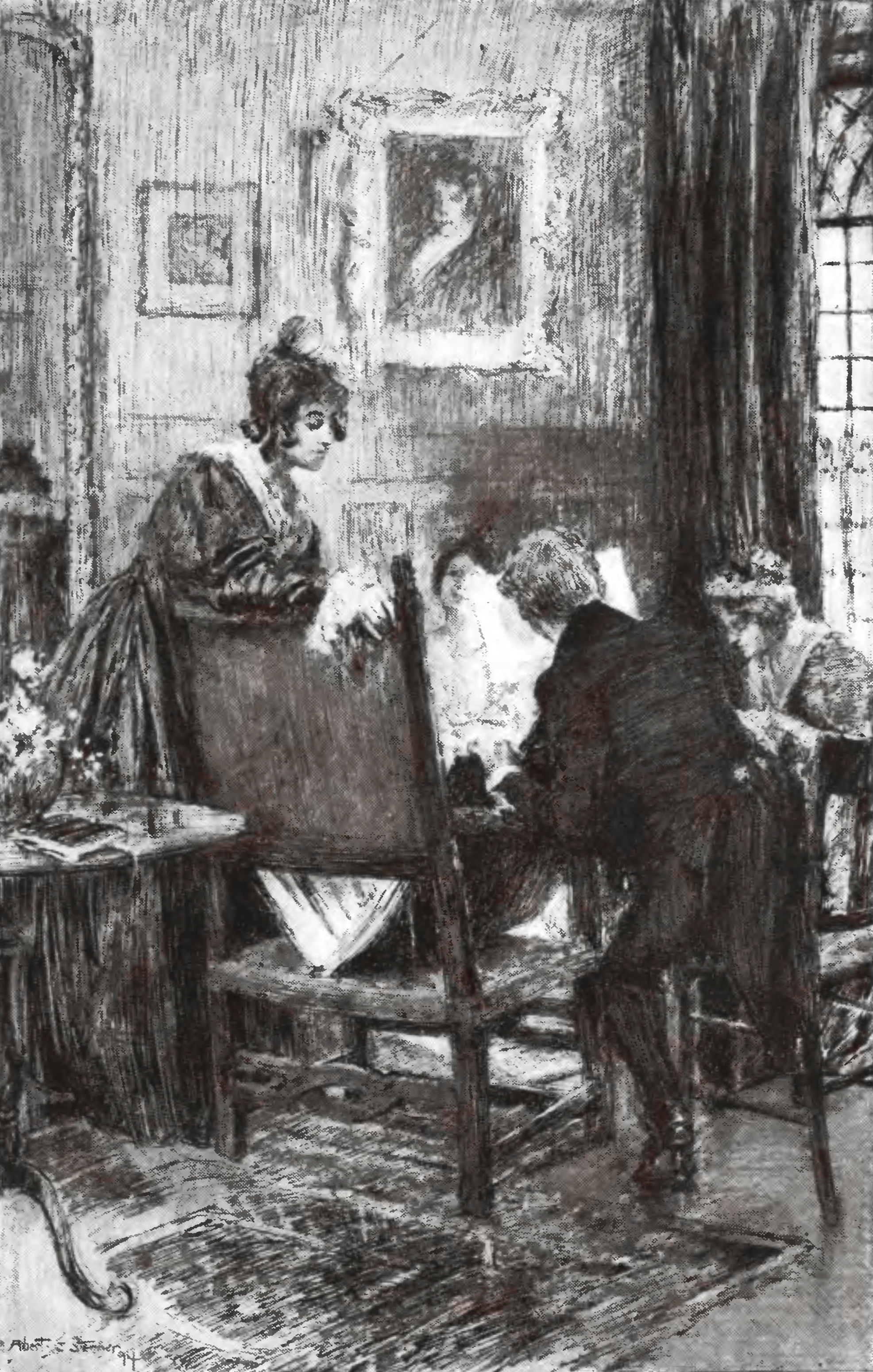 Illustration from page viii of A Kentucky Cardinal. This is a subimage of Image:A Kentucky Cardinal.djvu.